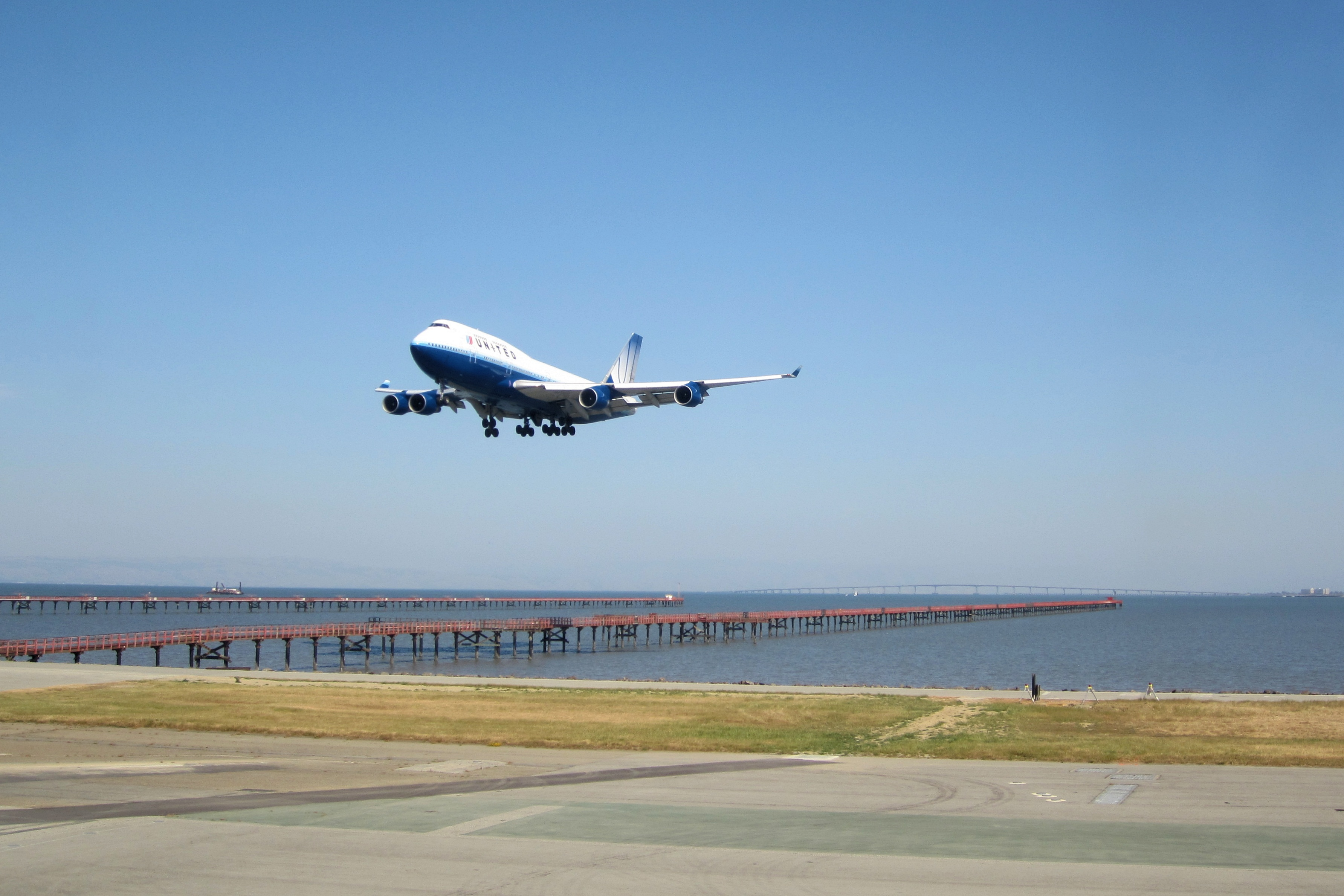 A "United"-Jumbo approaching for landing at SFO.